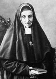 Paula Montal Fornés - Sister Paula of Saint Joseph Casalanz (1799-1889), Roman catholic nun, educator, saint.